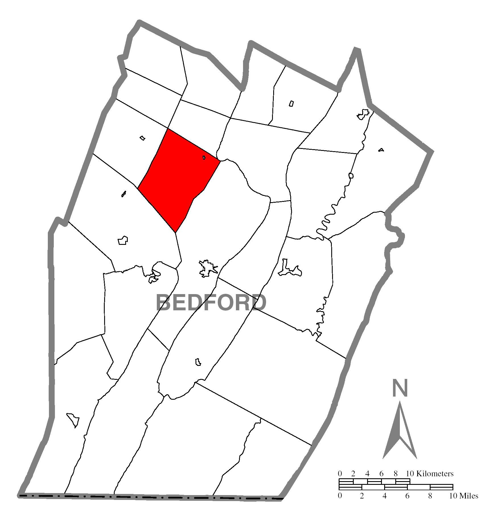 A map of Bedford County showing East St. Clair Township, Pennsylvania (alternate) highlighted on the map.